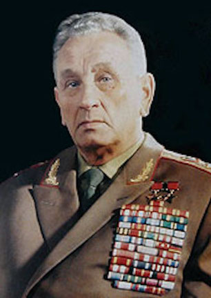 Enlarged photo of Soviet Defense Minister, Andrei Grechko